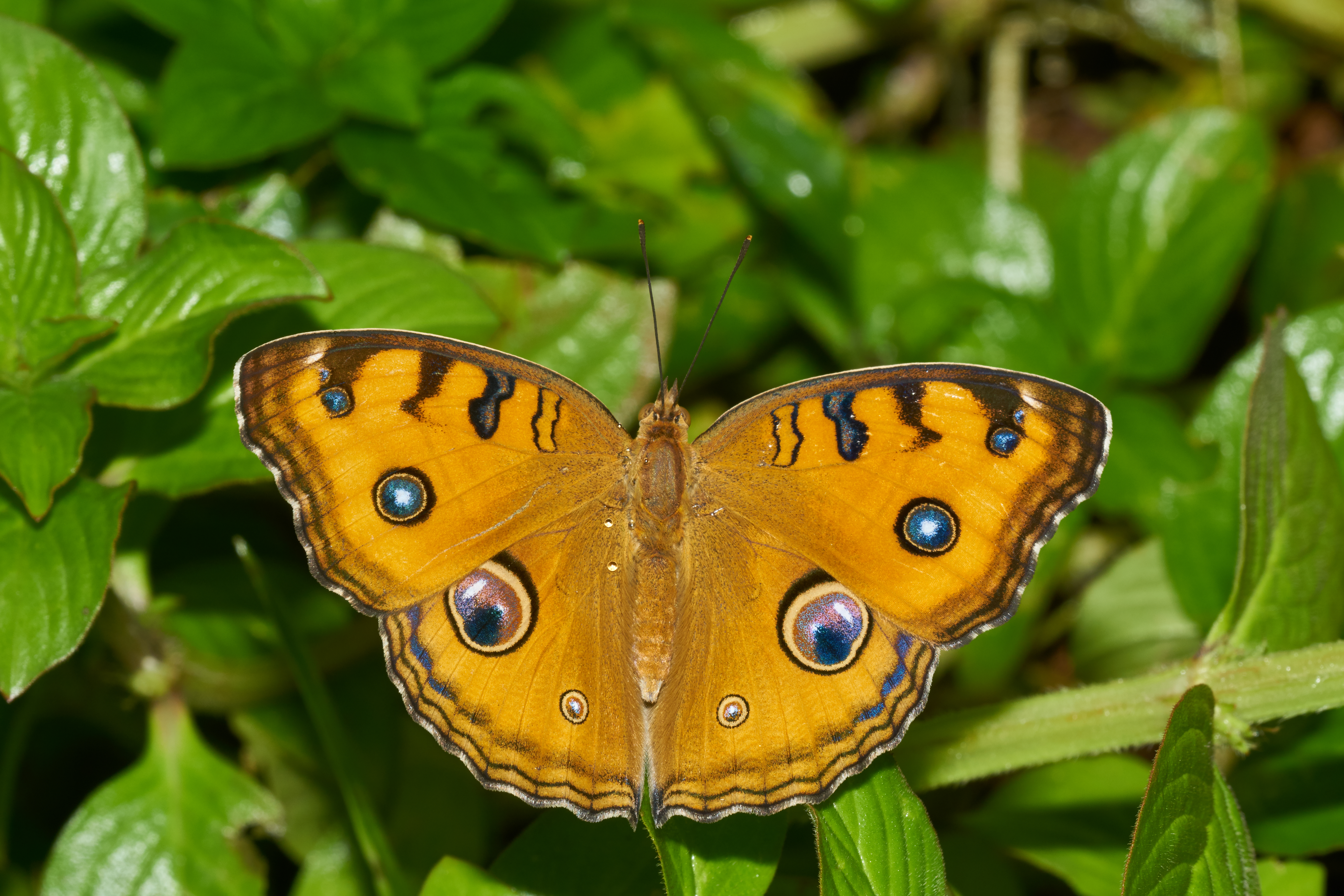 Junonia almana, Peacock Pansy, is a species of nymphalid butterfly found in South Asia. It exists in two distinct adult forms, which differ chiefly in the patterns on the underside of the wings; the dry-season form has few markings, while the wet-season form has additional eye-spots and lines.